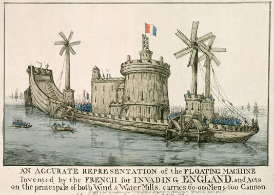 A satirical caricature of Napoleon’s preparations to invade Britain, Robert Dighton, (1805)